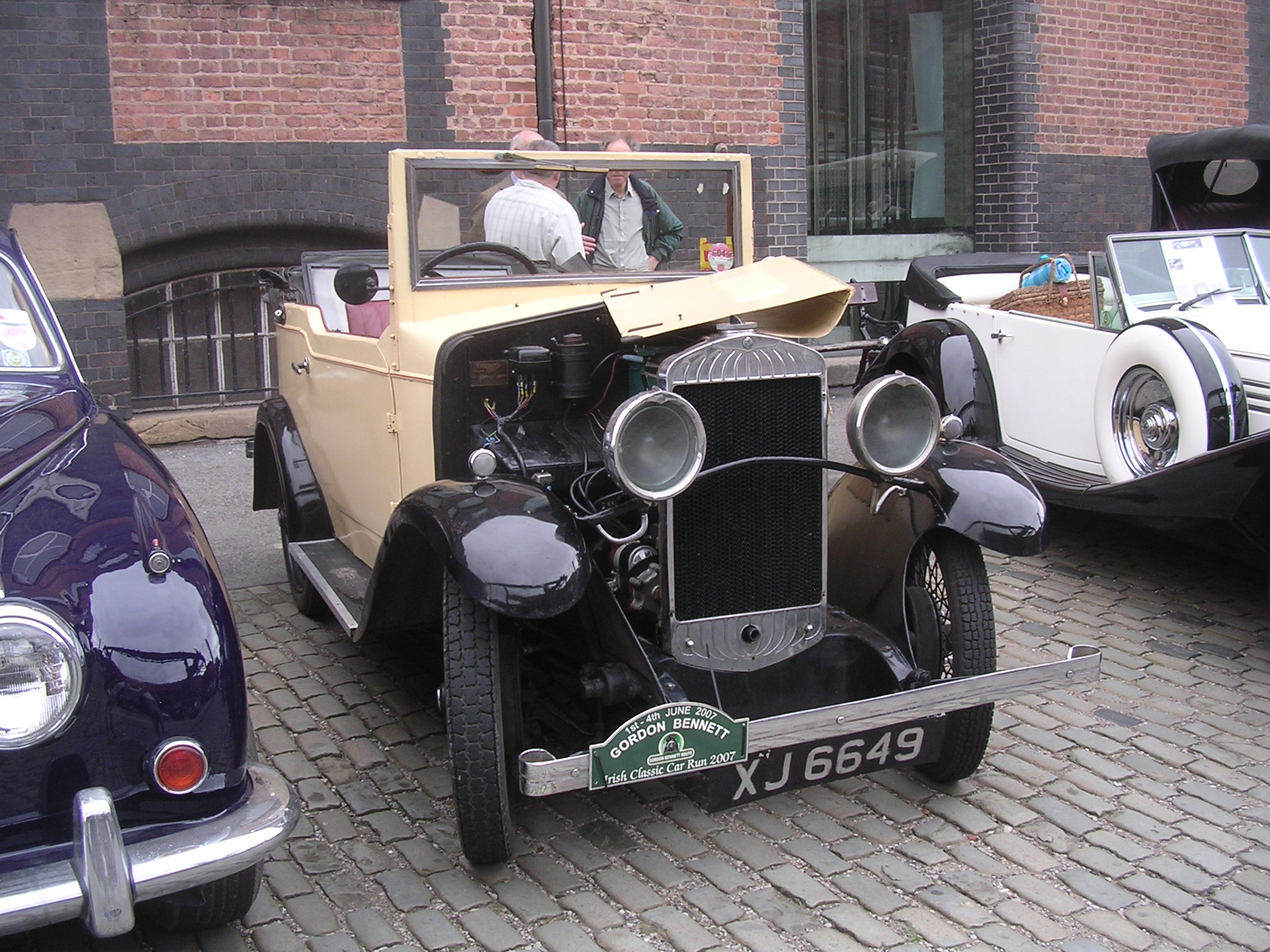 Triumph Super 8 from 1933Triumph